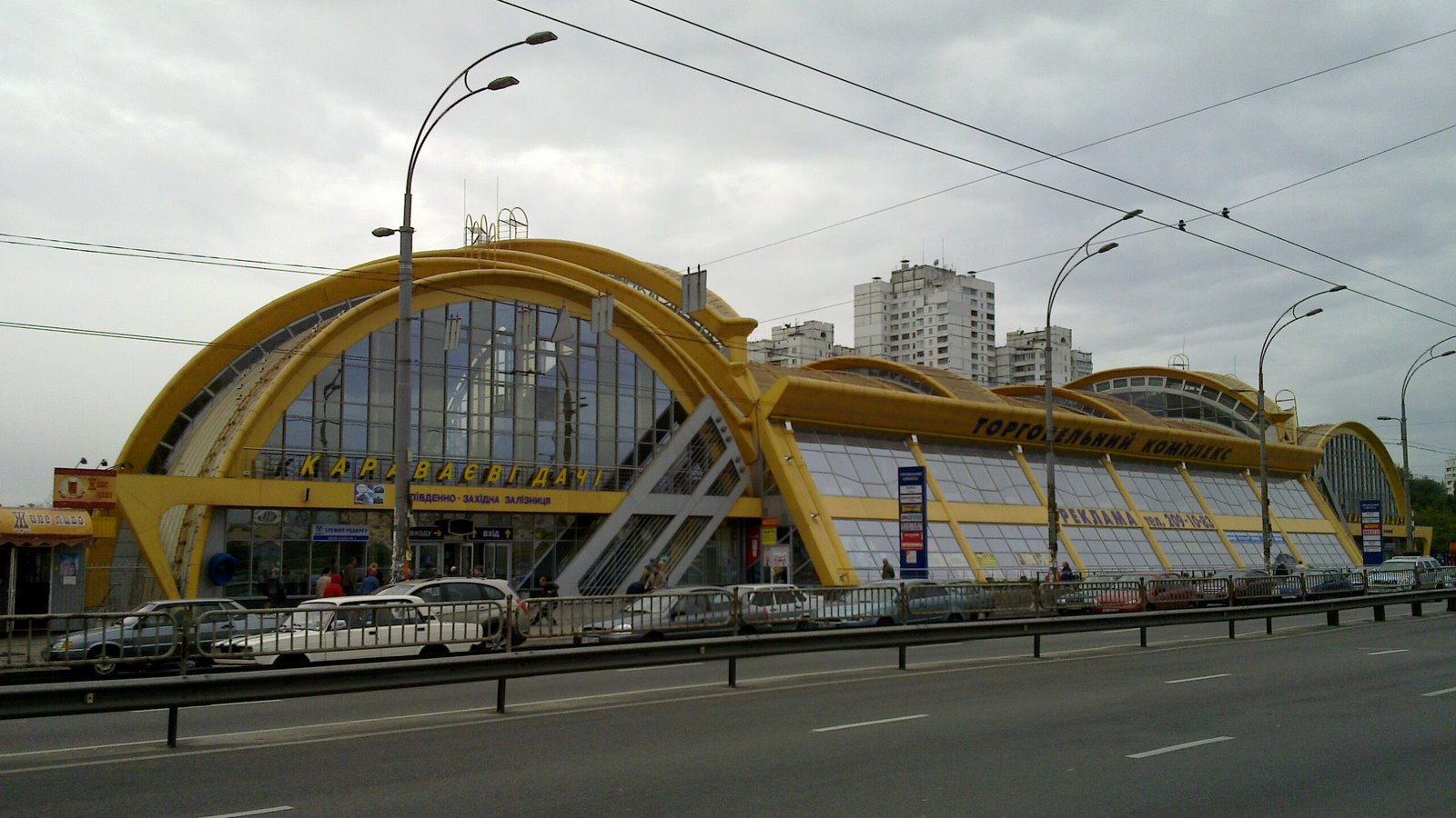 Railroad station Karavayevy Dachi, Kiev